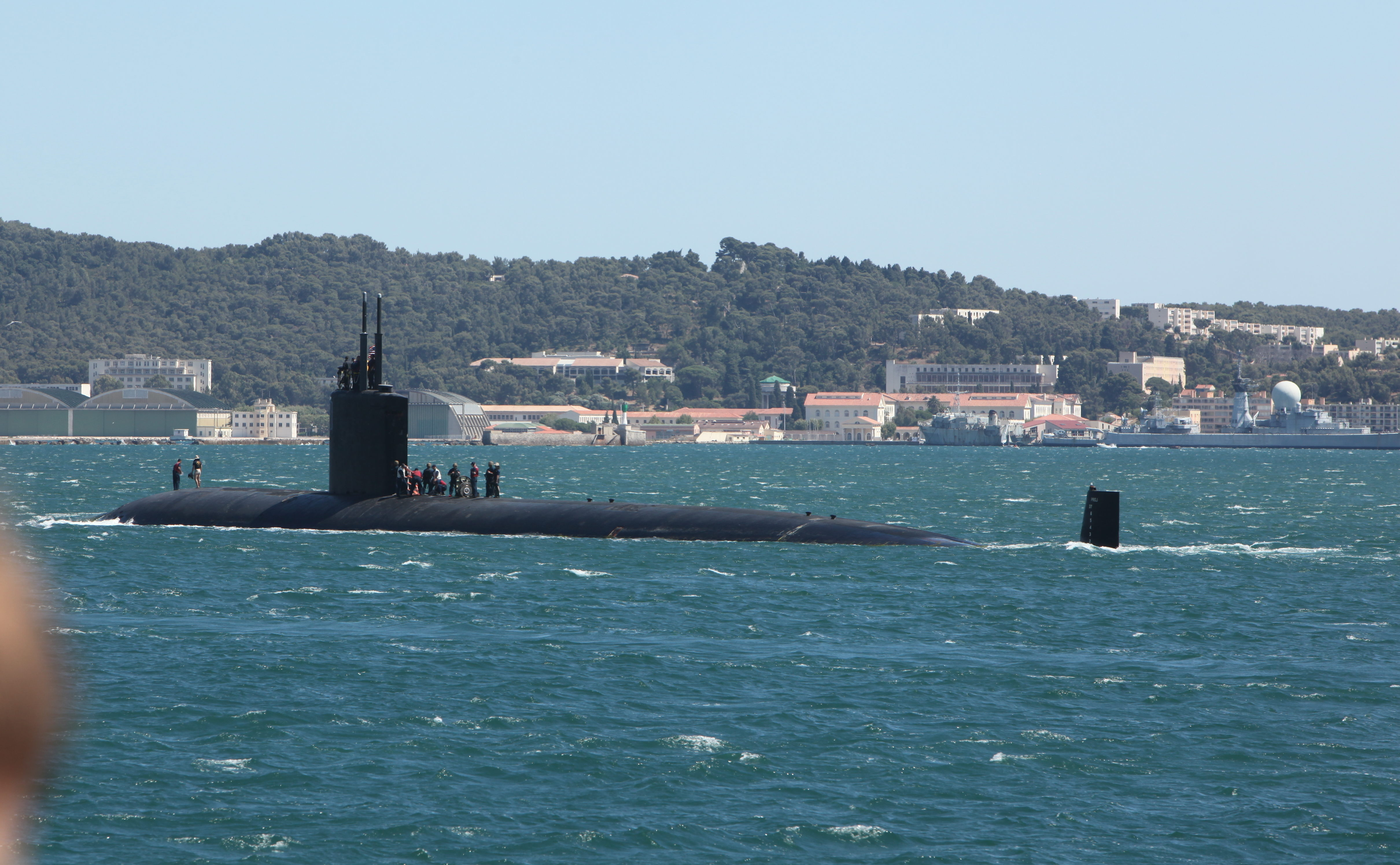 A Los Angeles class submarine departing Toulon harbour.